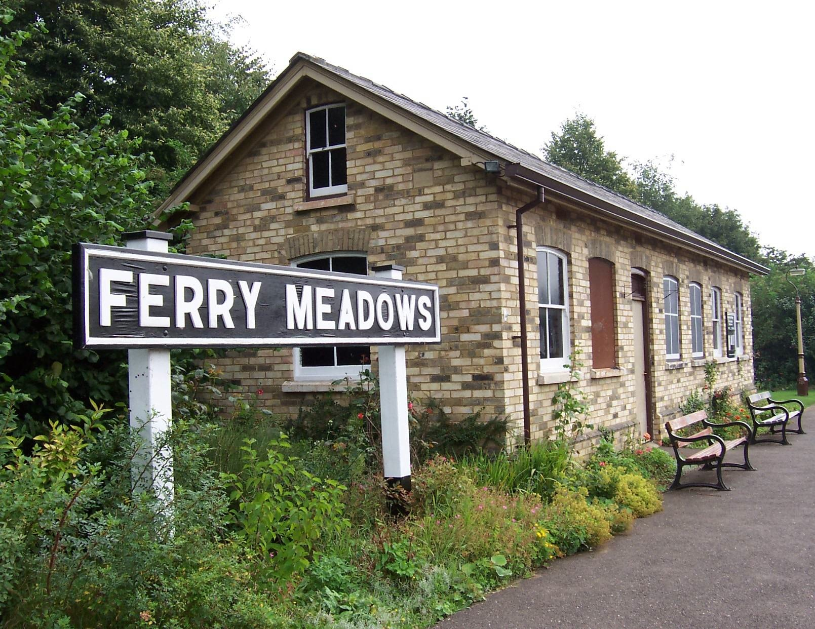 The new Ferry Meadows station building, which was originally Fletton Goods Office. This building replaced the original Portacabin dating from 1978, which was badly decaying. The station was renamed to Overton for Ferry Meadows in 2017.